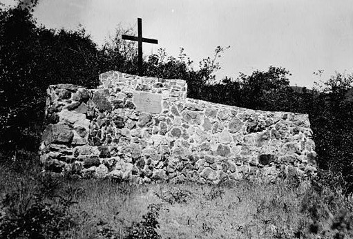 Frank Norris Memorial — Redwood Retreat Road, Gilroy vicinity (Santa Clara County, California). Historic American Buildings Survey—HABS image.